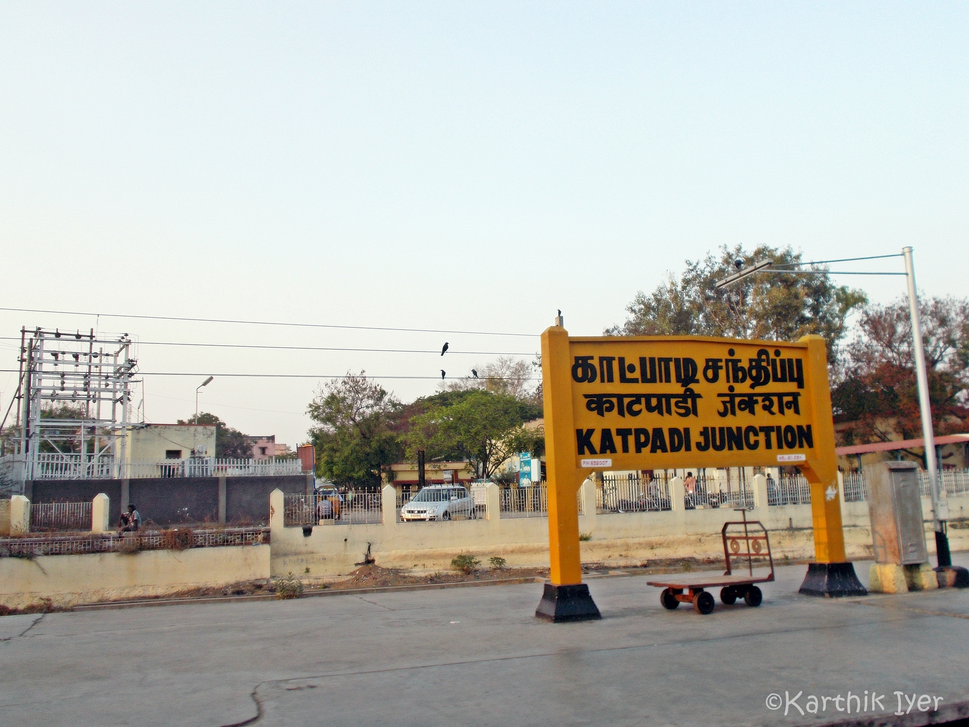 Katpadi Jn Railway station Board.